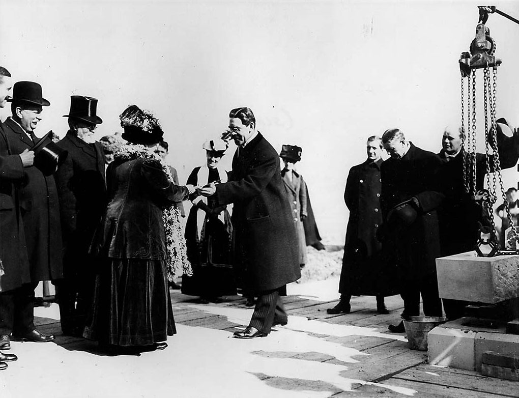 George H. Gooderham presents a trowel to Lady Gibson